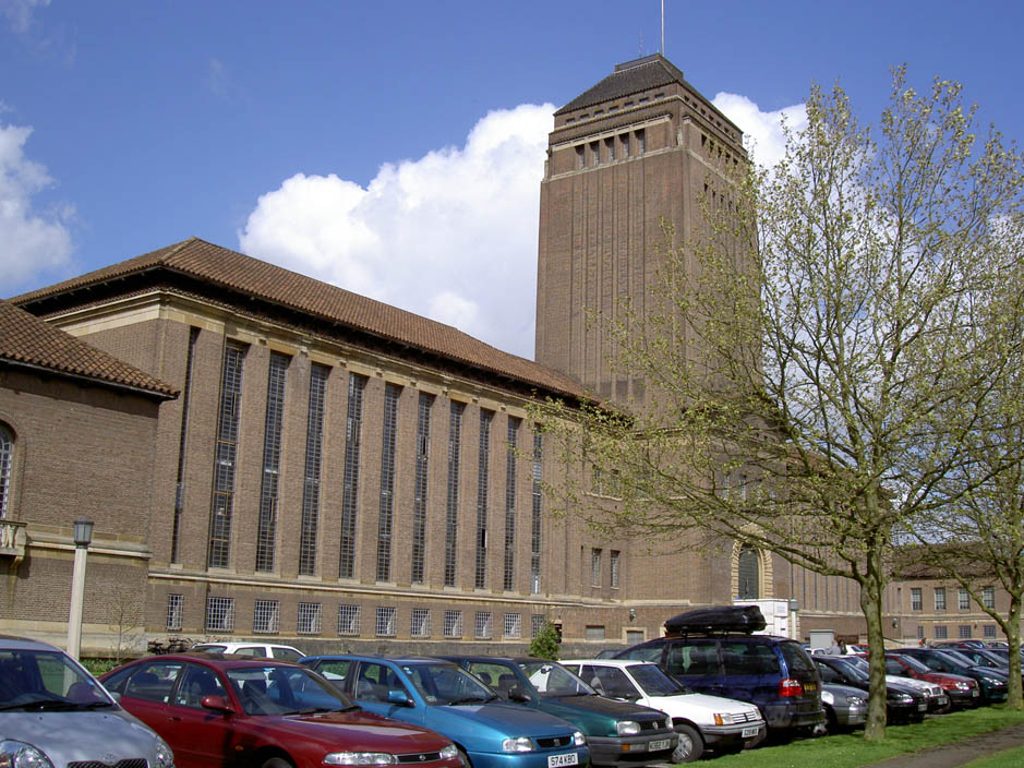 The Cambridge University Library by Giles Gilbert Scott (en:1931-34). Taken on April 27, en:2005. Category:Images of England